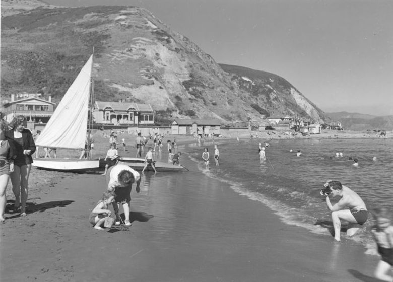 Description: Island Bay, Wellington Photographer: Unknown Date: Unknown Archives New Zealand Reference: AAQT 6539 A1019 This photo is from Archives New Zealand's National Publicity Studio's collection. The National Publicity Studio was established in 1945, but its beginnings can be traced back to the establishment in 1924 of a Publicity Office - part of the Department of Internal Affairs. The emphasis of this Publicity Office was on films, photographs and booklets. The purpose of the National Publicity Studio was to provide advice to government departments and state agencies on the provision of photographic, art, and display services and in particular to assist in the production of publicity material aimed at conveying a favourable image of New Zealand.